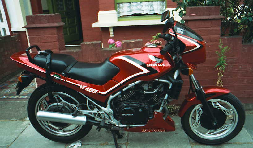 Author: Das051